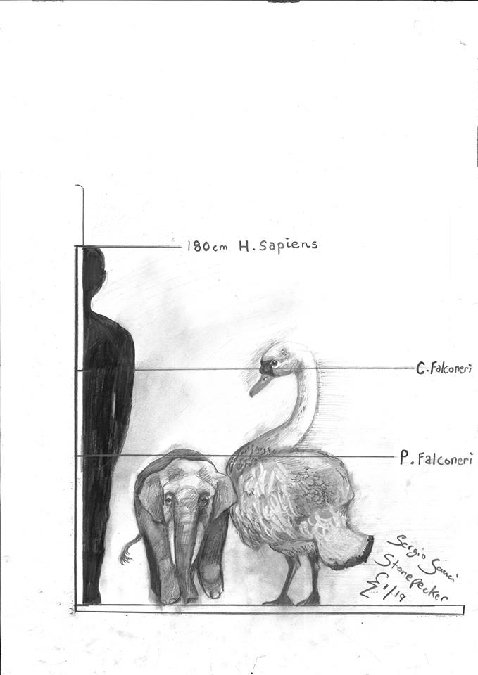 Artist`s representation of C.falconeri